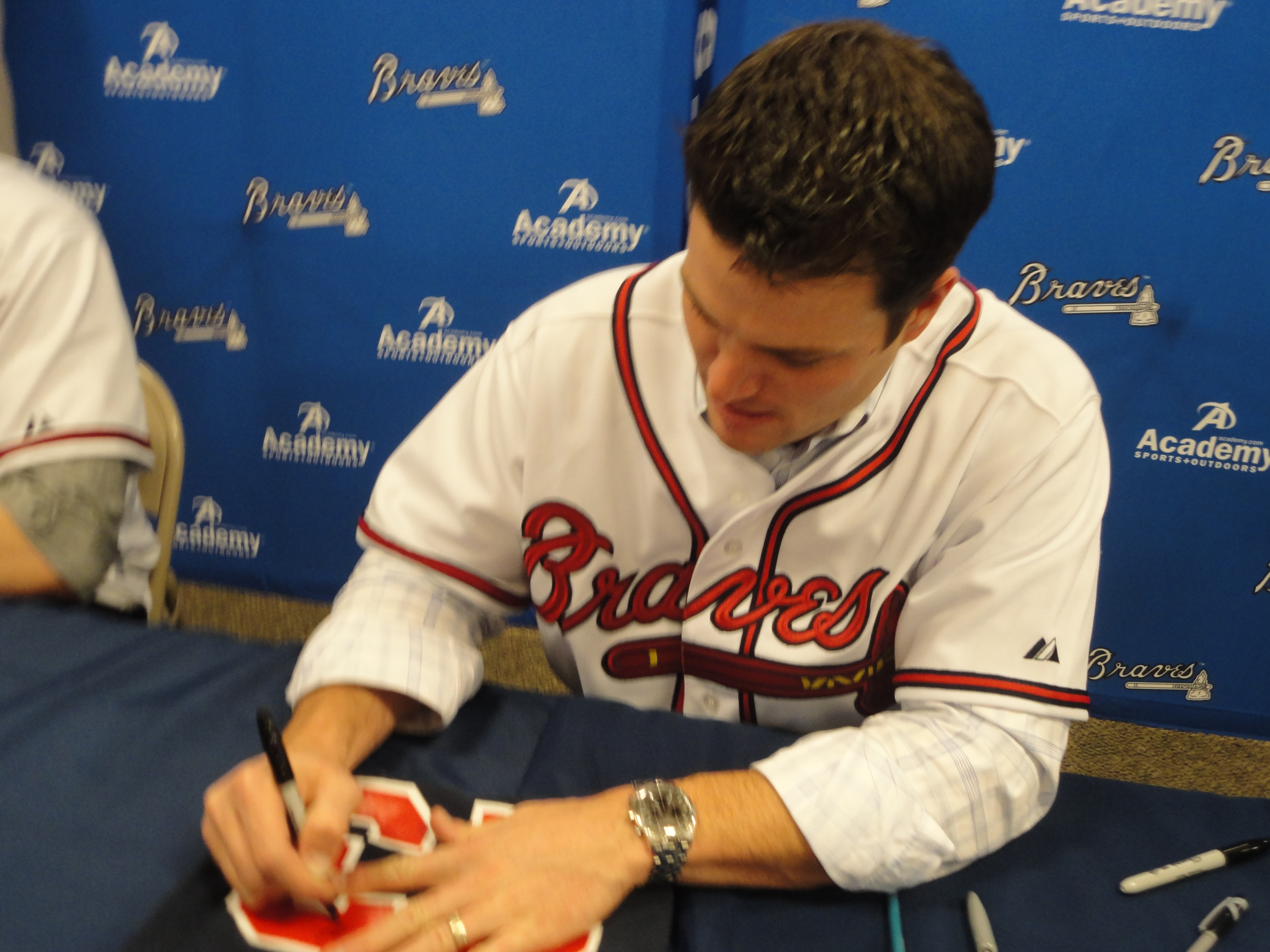 Braves outfielder Matt Diaz at a 2012 Atlanta Braves Country Caravan autograph signing.